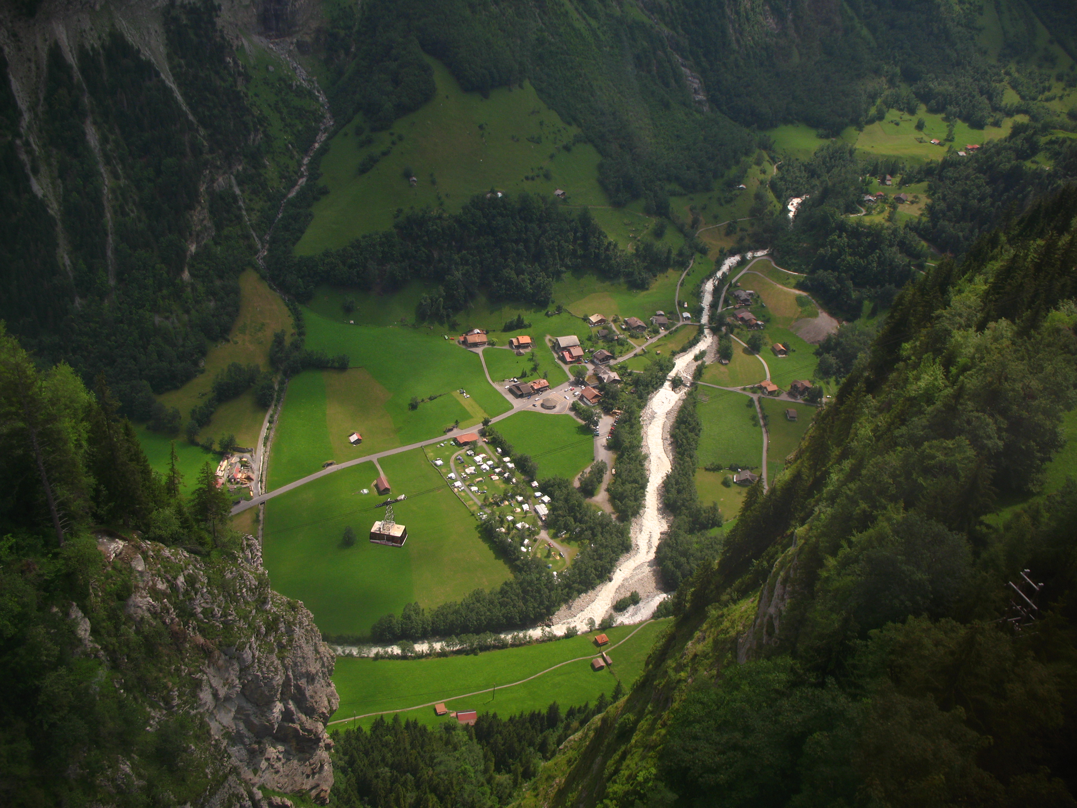 Stechelberg viewed from the Schilthorn cable car, Switzerland - Google Maps - Google Earth